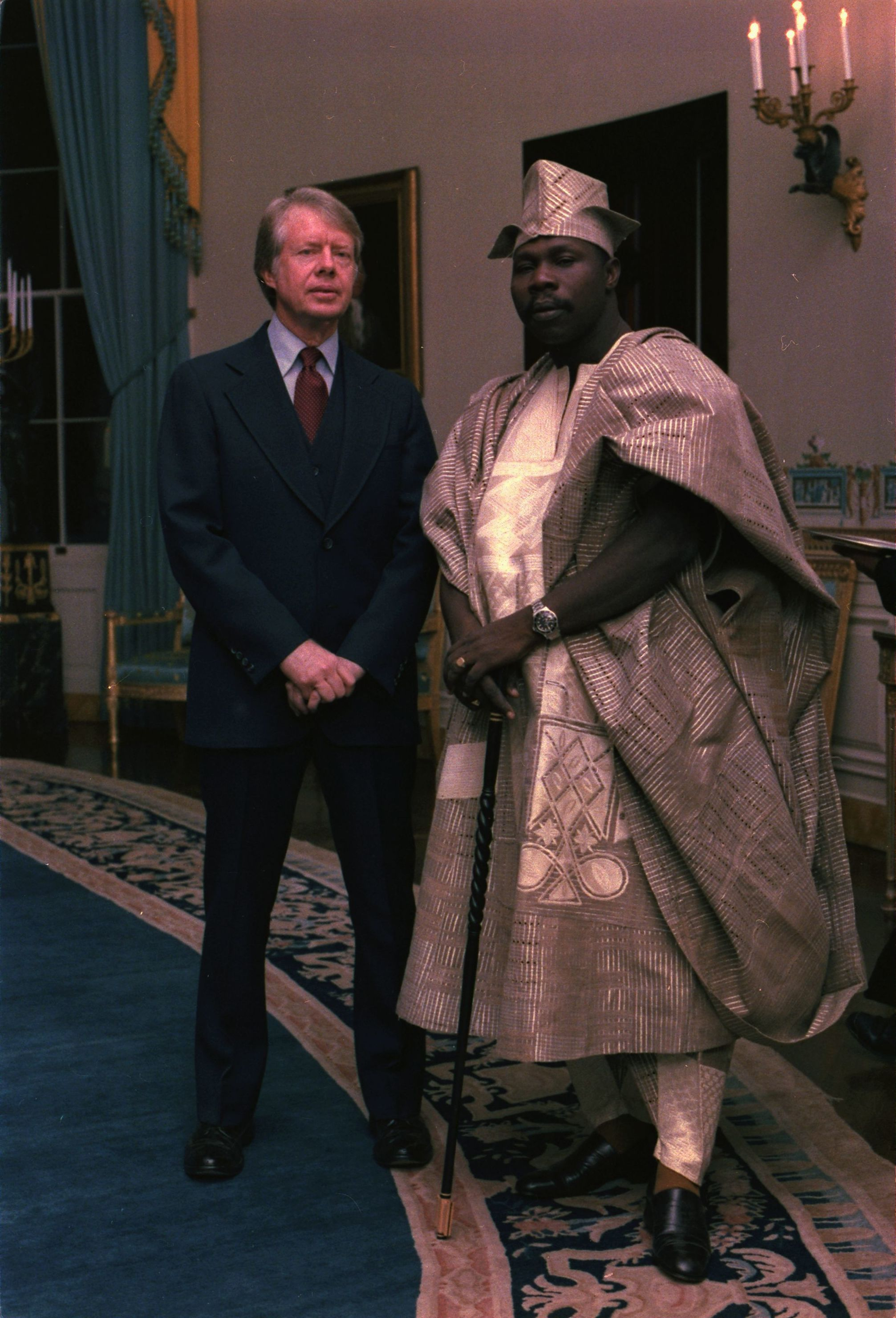 Jimmy Carter with Lt. Gen. Olusegun Obasanjo of Nigeria